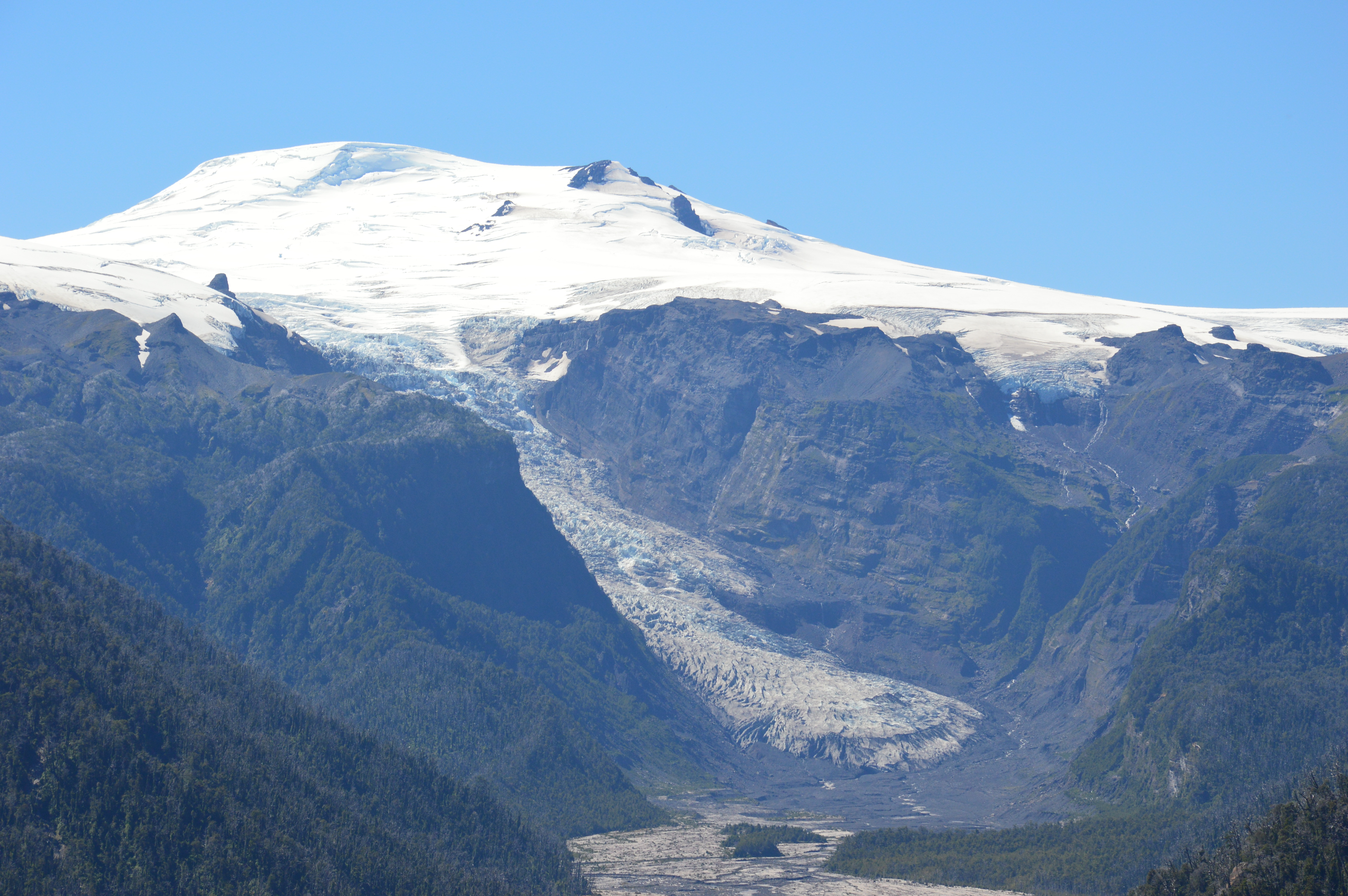 Volcano Michinmahuida and a glacier tongue